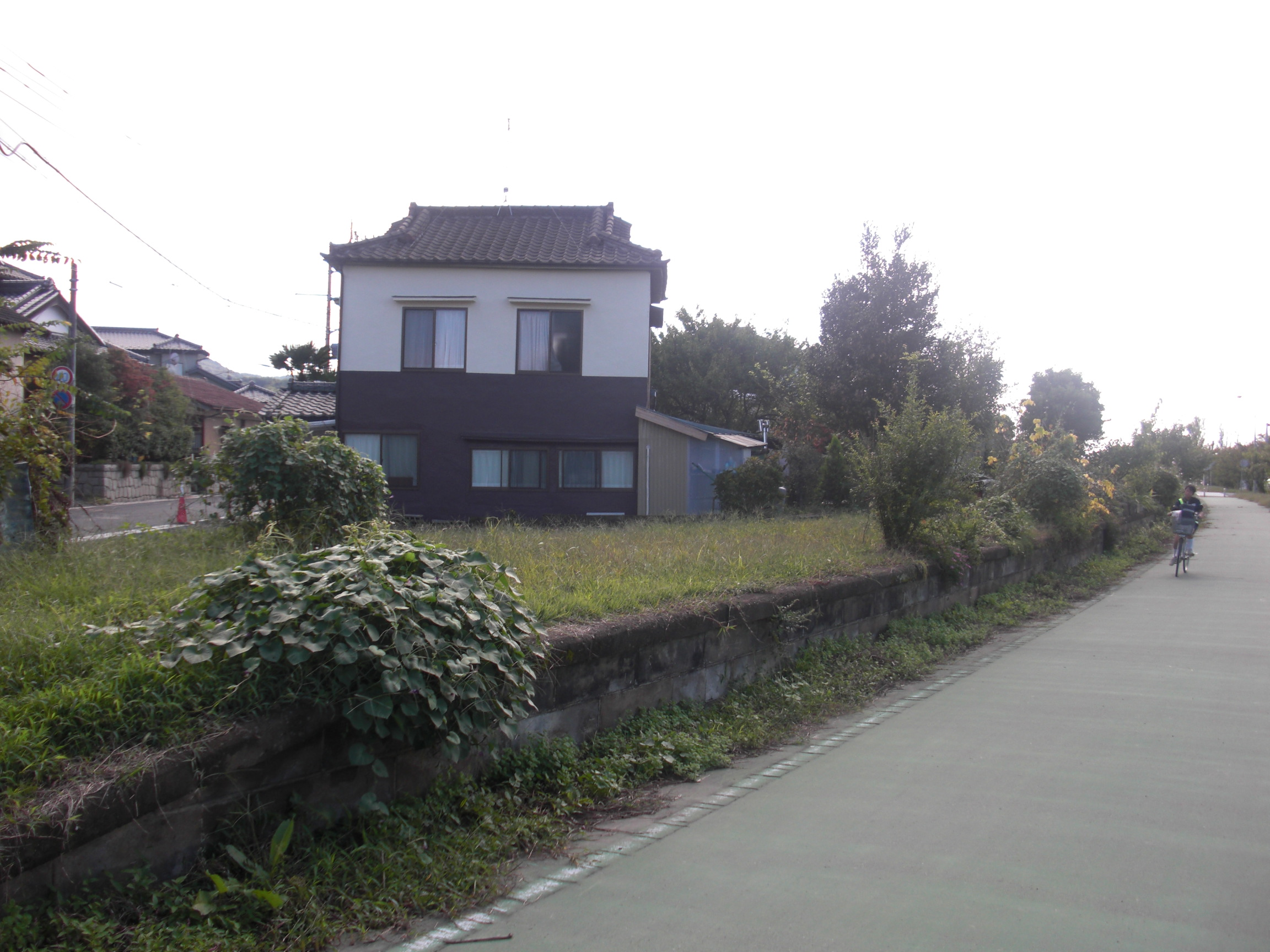 This is a site of Hitachi-Momoyama station in Japan.